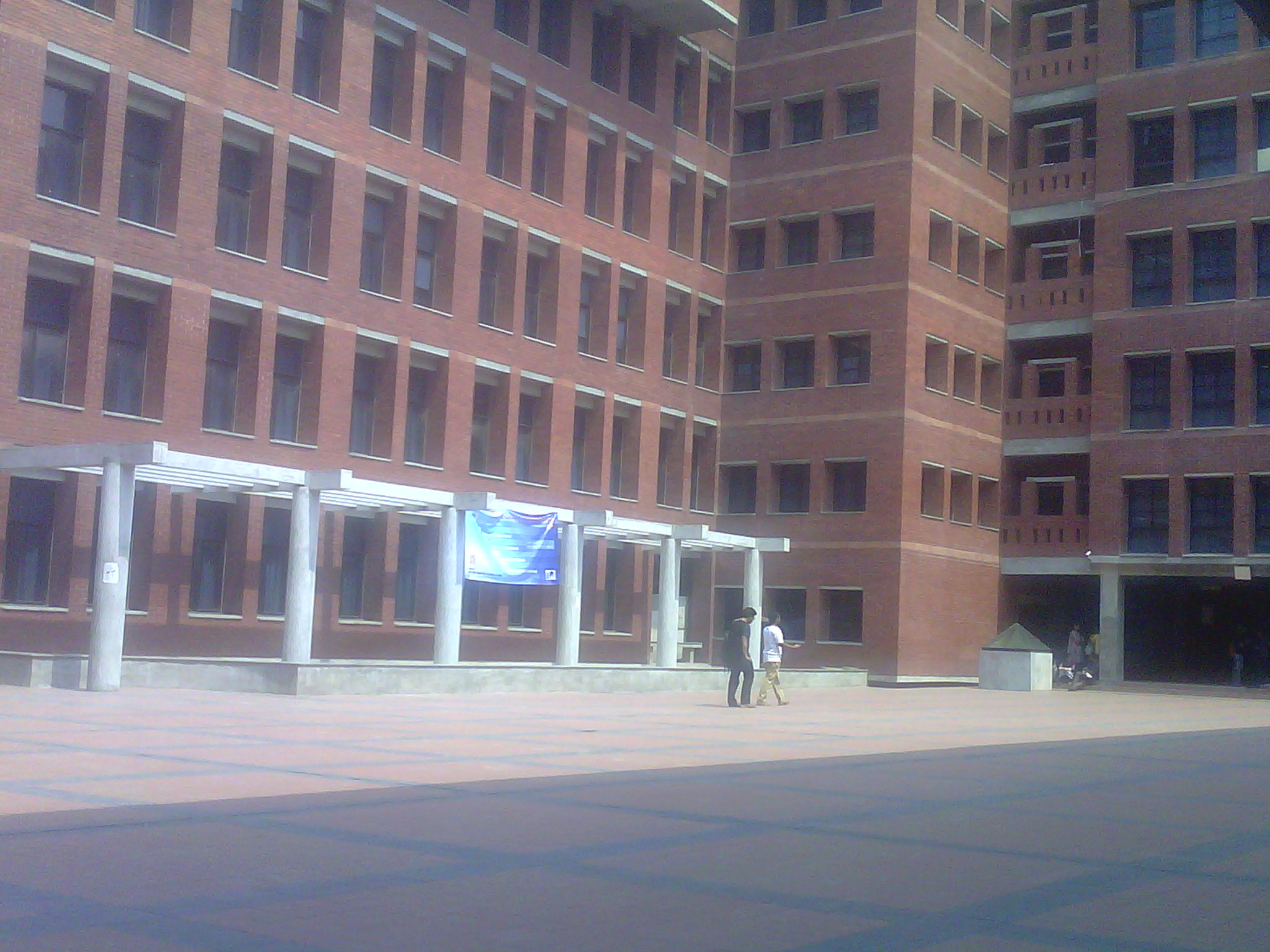 East West University Campus, Aftabnagar.